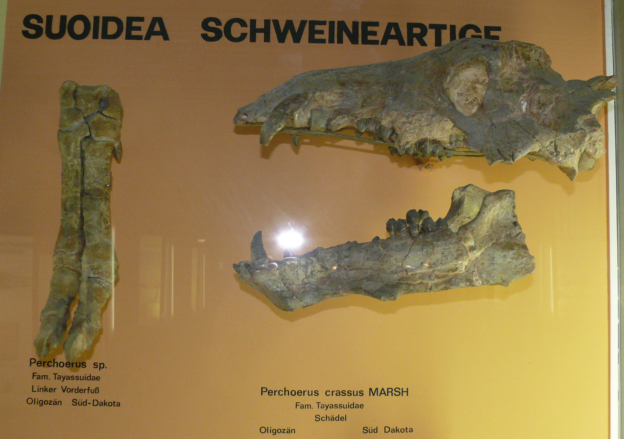 Perchoerus